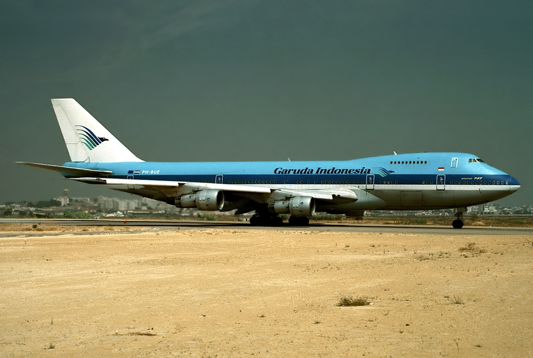 Basic KLM c/s.